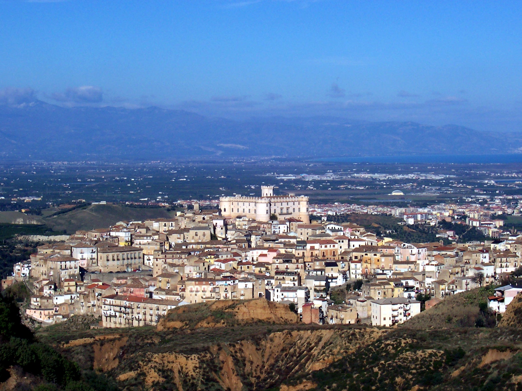 View of Corigliano Calabro from the street to mountain, Corigliano, CS, Italy